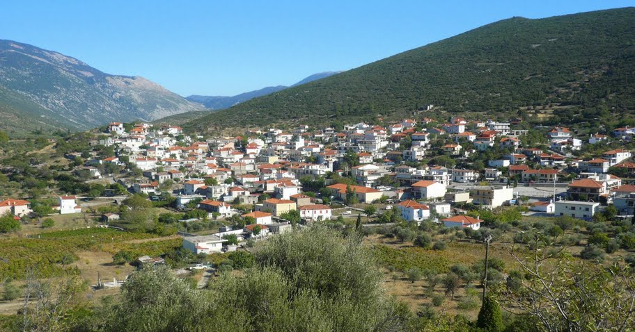 Steiri, greek village in Boeotia Prefecture